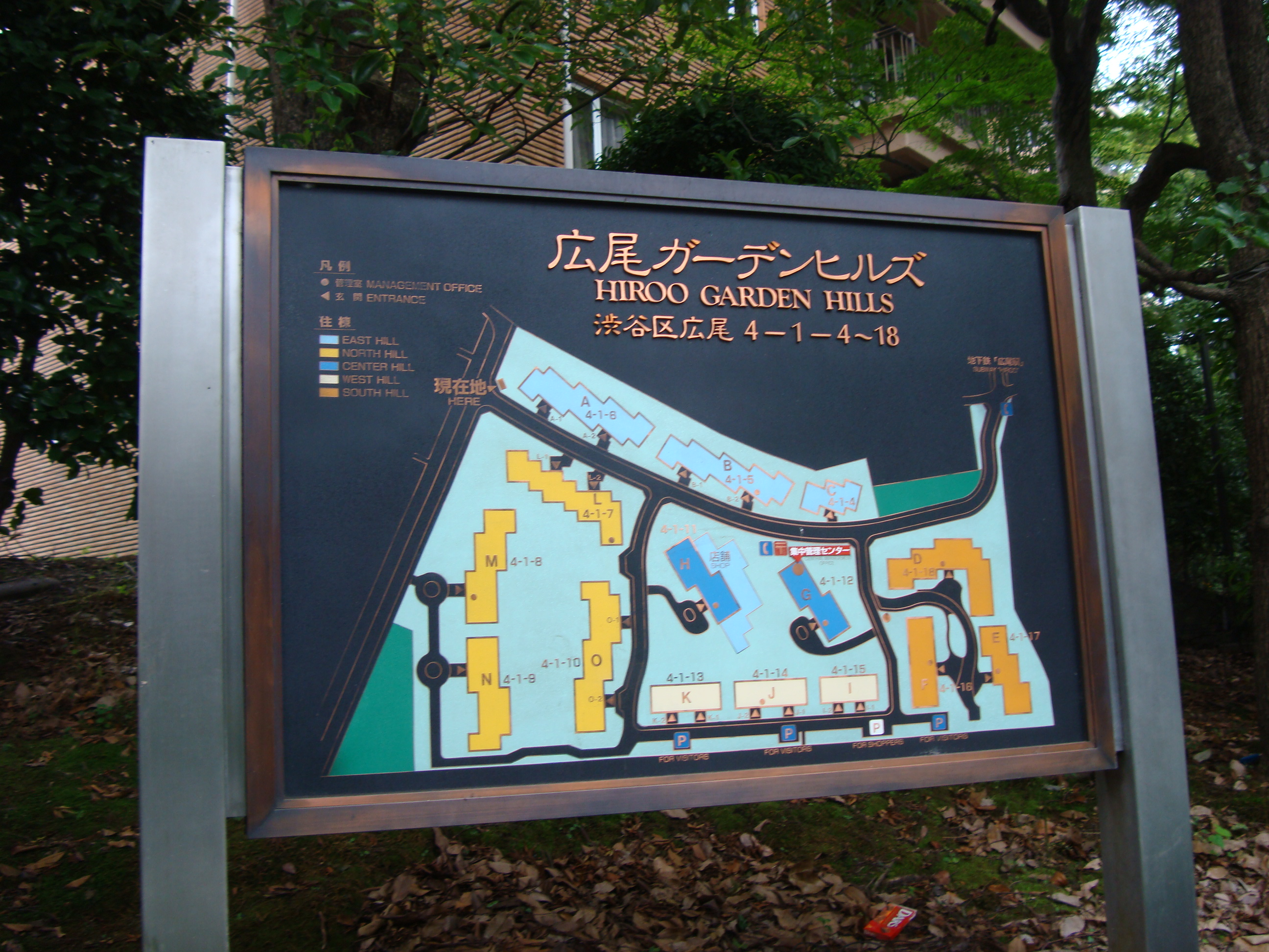 Residential apartment block plan for Hiroo Garden Hills complex, Tokyo